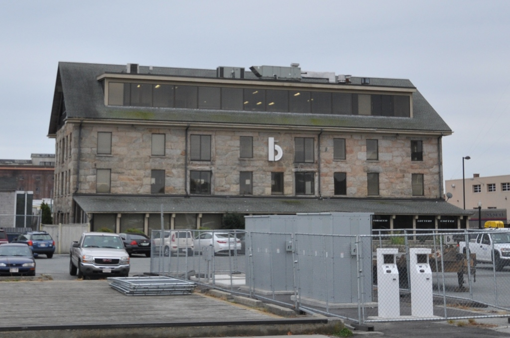 The counting house on the waterfront in New Bedford, Massachusetts; part of the Merrill's Wharf Historic District. This is the only surviving stone waterfront building from New Bedford's heyday as a whaling center.